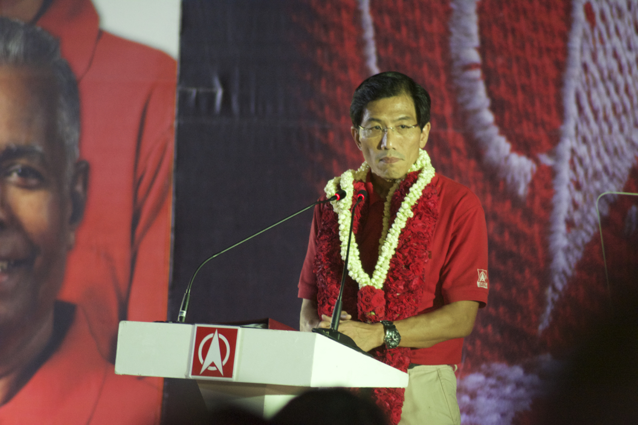 Dr. Chee Soon Juan, Secretary-General of the Singapore Democratic Party, speaking at a rally held at the field in front of Block 204 Clementi Avenue 6 during the Singaporean general election, 2015.